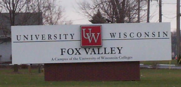 The road sign for the University of Wisconsin-Fox Valley in Menasha, Wisconsin, USA. Cropped from the original.